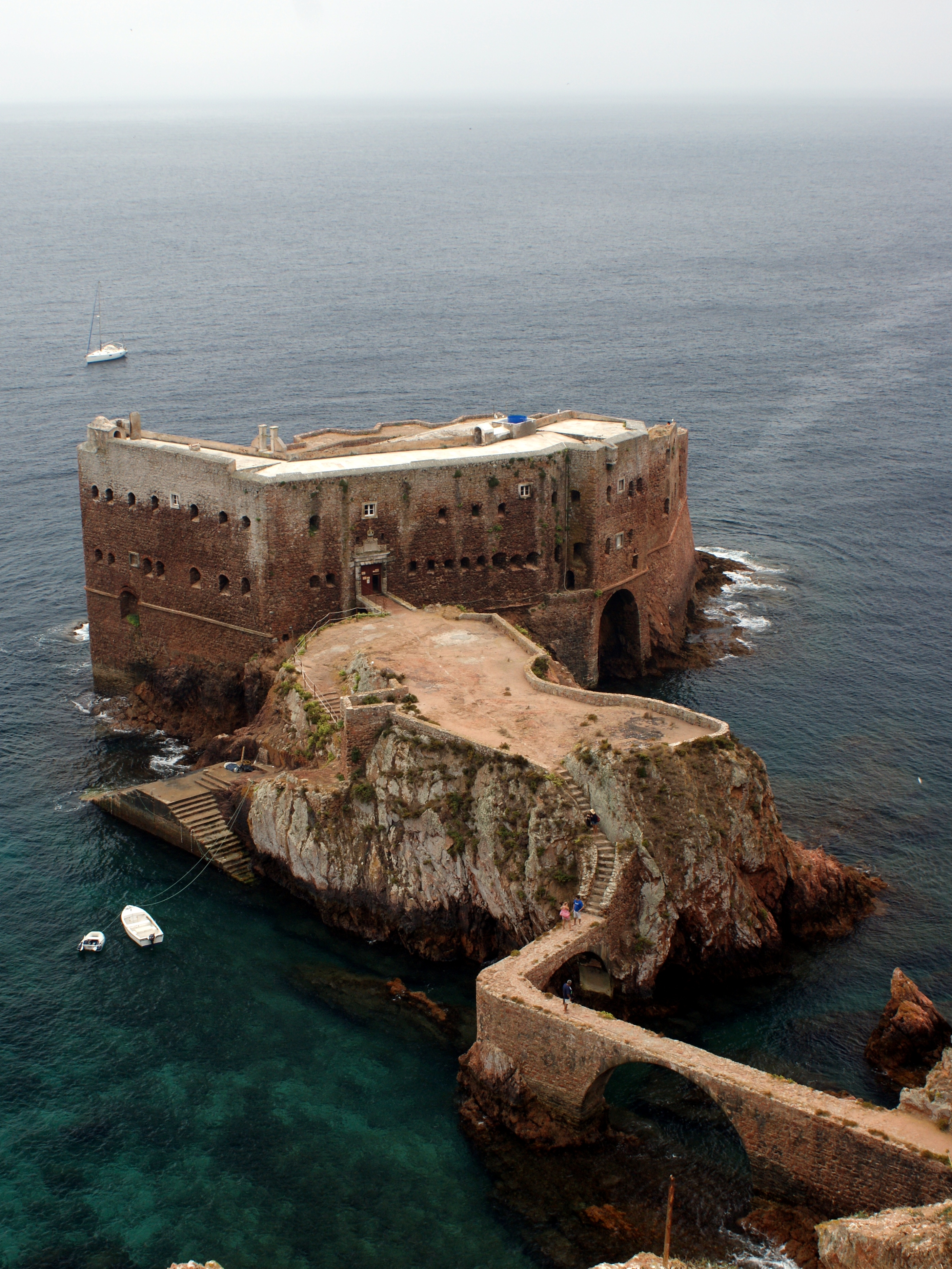 Forte de São João Baptista das Berlengas on Berlenga Island